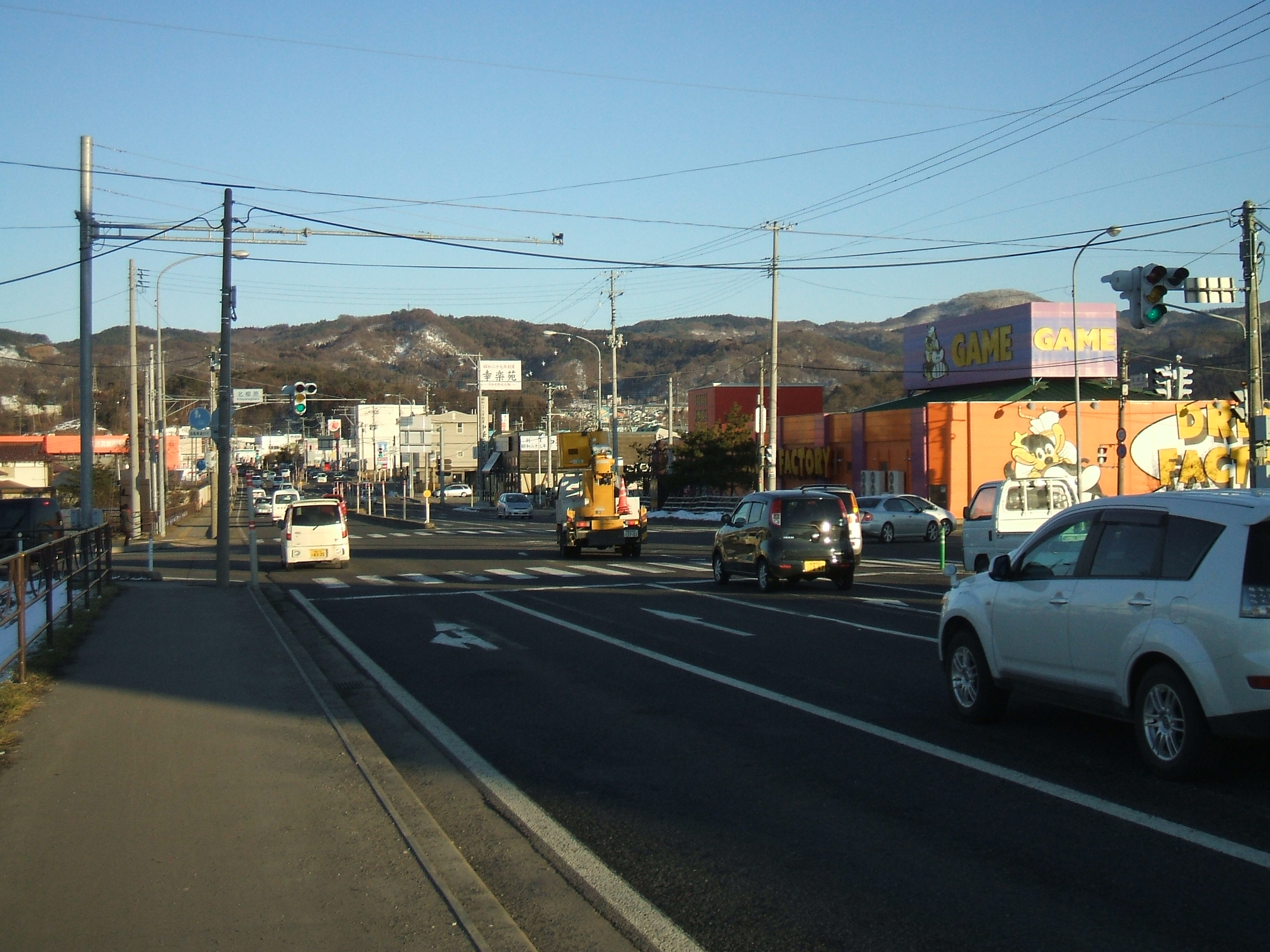 This is a landscape of Kita-Yanagihara crossing. It was taken at Aizuwakamatsu, Fukushima.